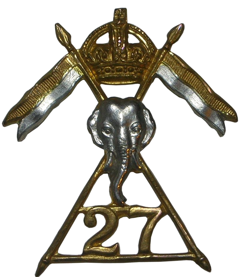 27th Lancers cap badge.